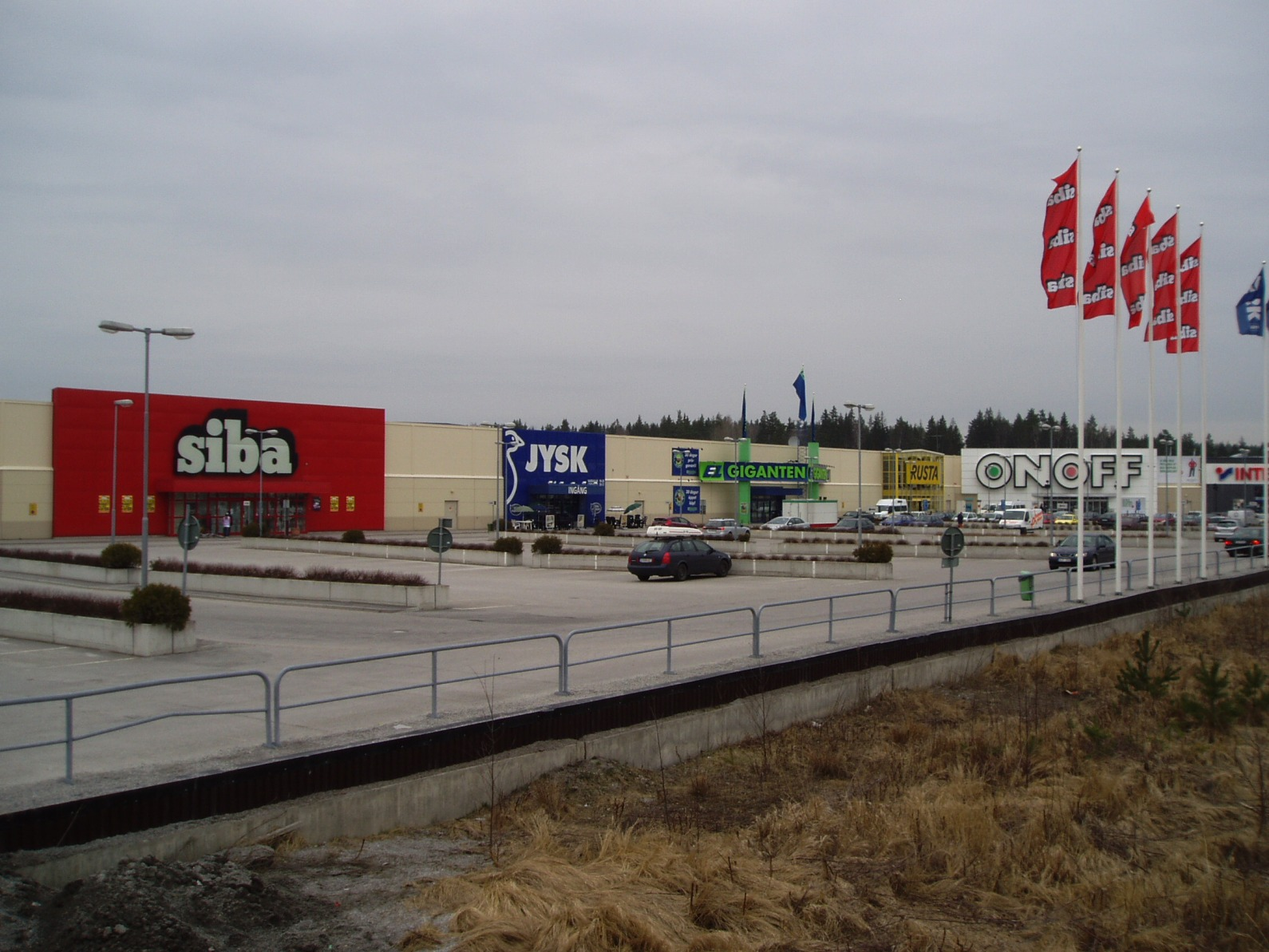 Moraberg shopping center, Södertälje, Sweden